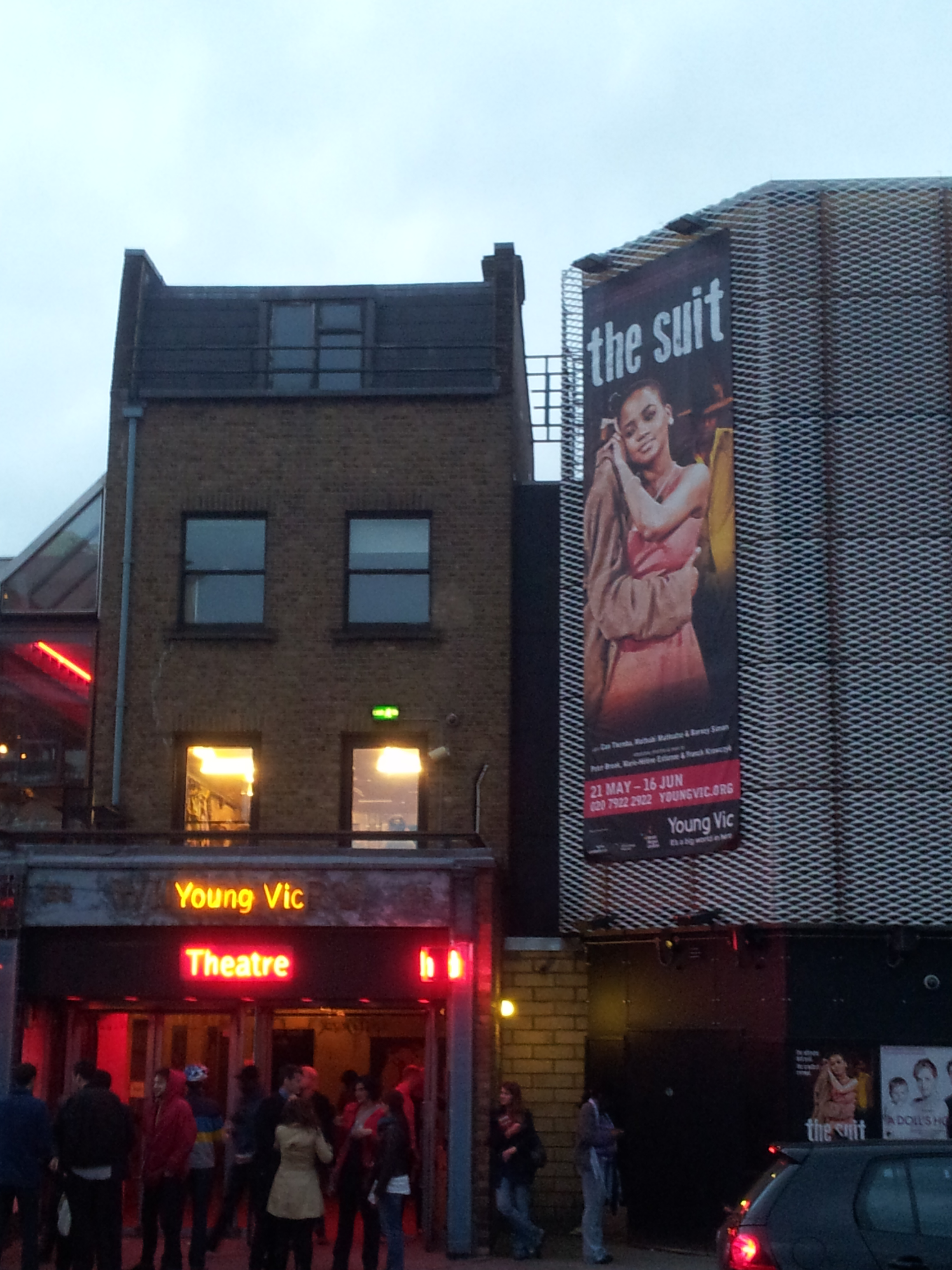 The Young Vic Theatre, situated in Southwark borough, South London.